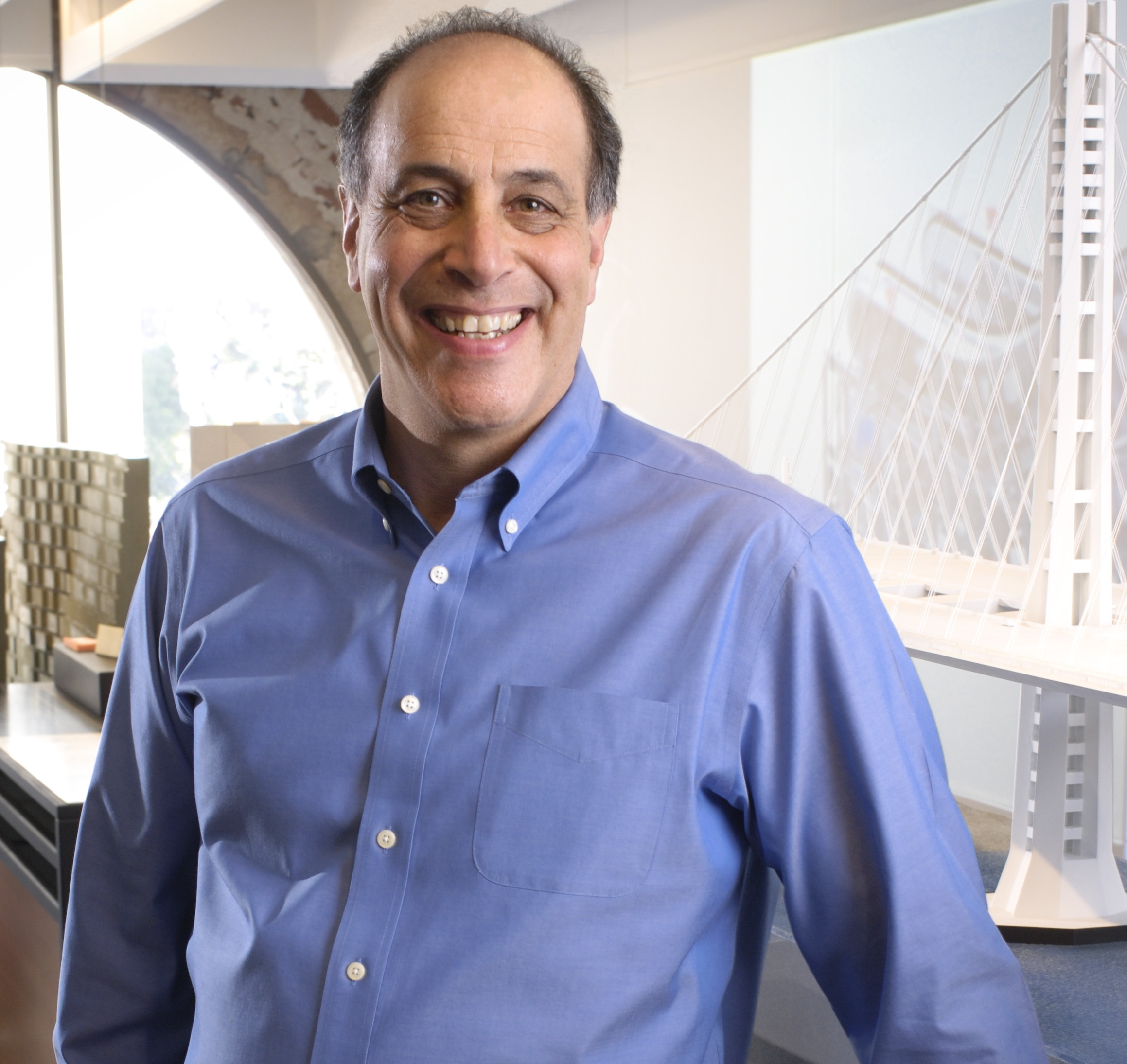 Portrait of Carl Bass, president and CEO of Autodesk